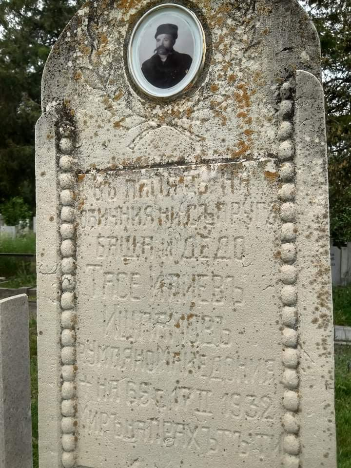 Tase Iliev Ishlamov from Umlena Grave